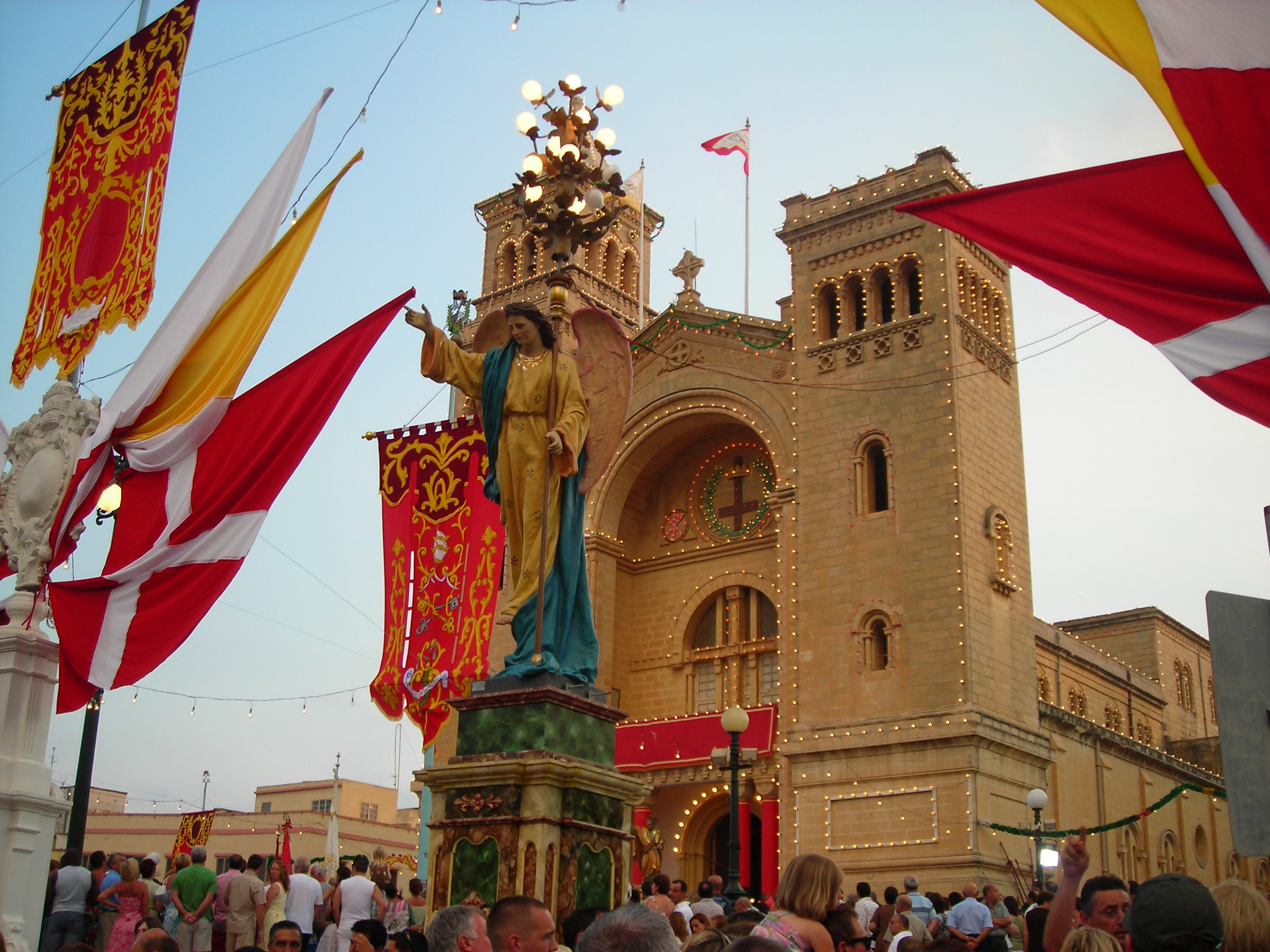 The church of Birzebbuga during the annual festa, celebrating St.Petre in chains